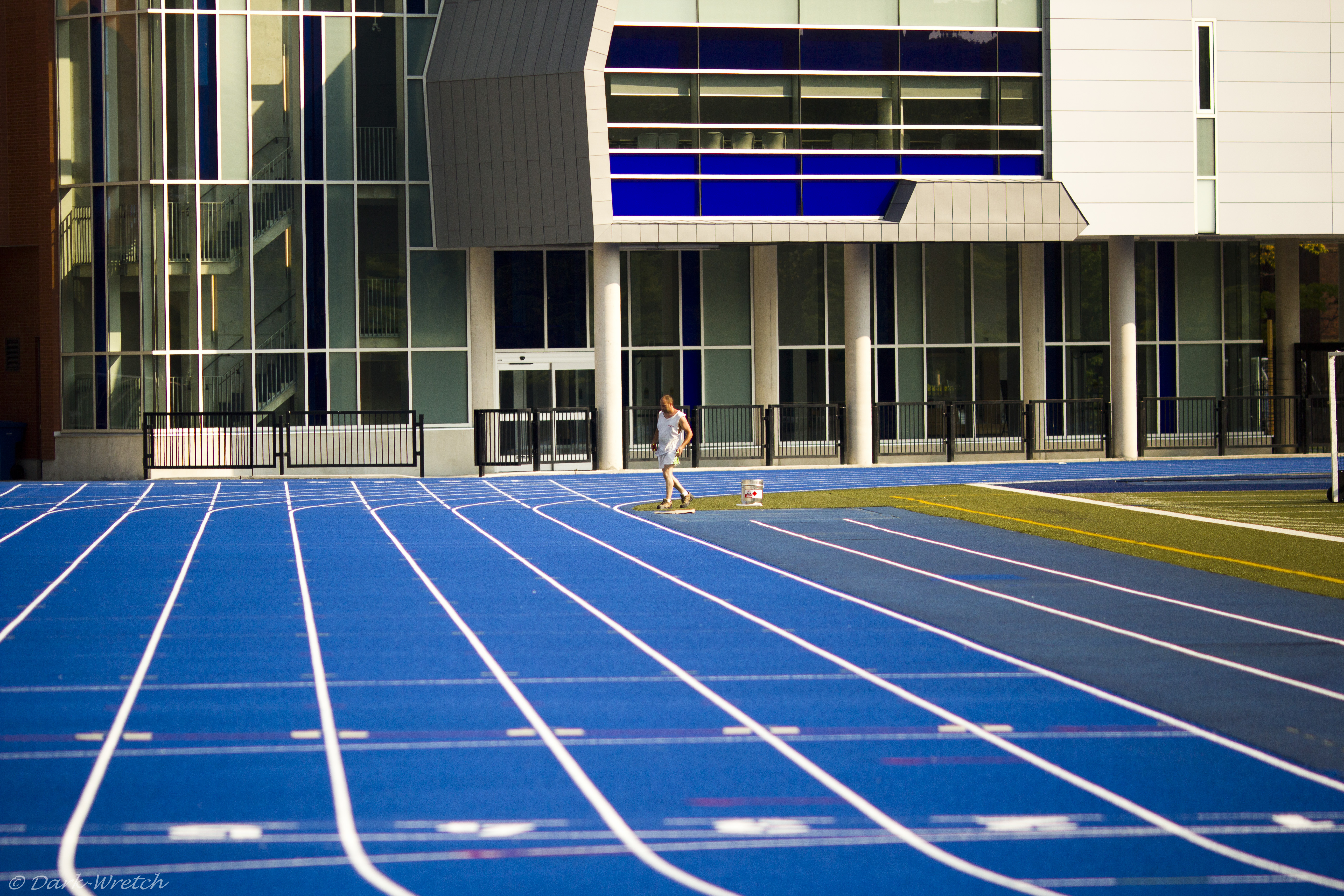 Running track at Varsity Stadium, University of Toronto, Toronto, Ontario, Canada.